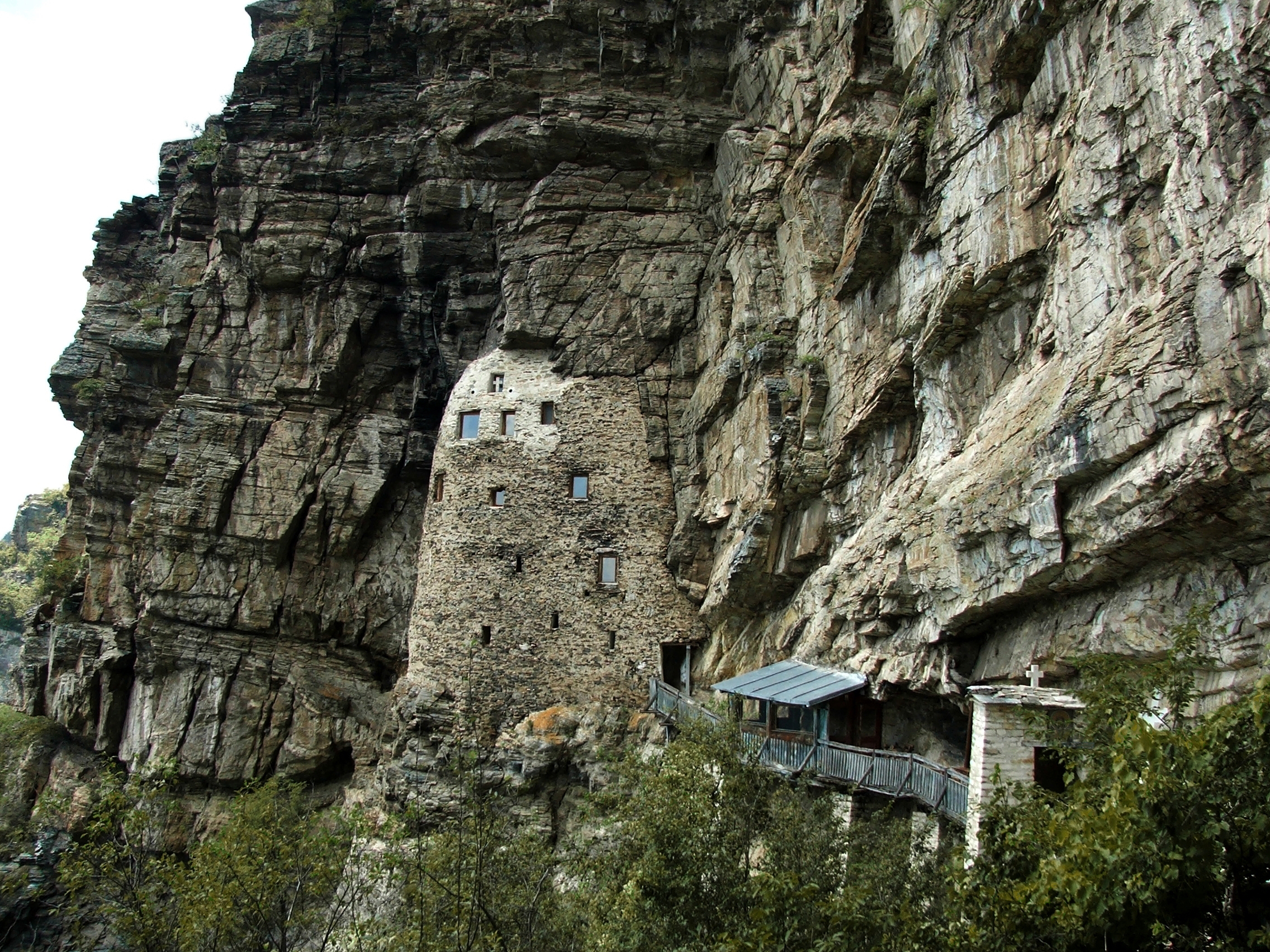 Upper Hermitage of Saint Sava, StudenicaСрпски (ћирилица): Горња испосница Светог Саве, Студеница